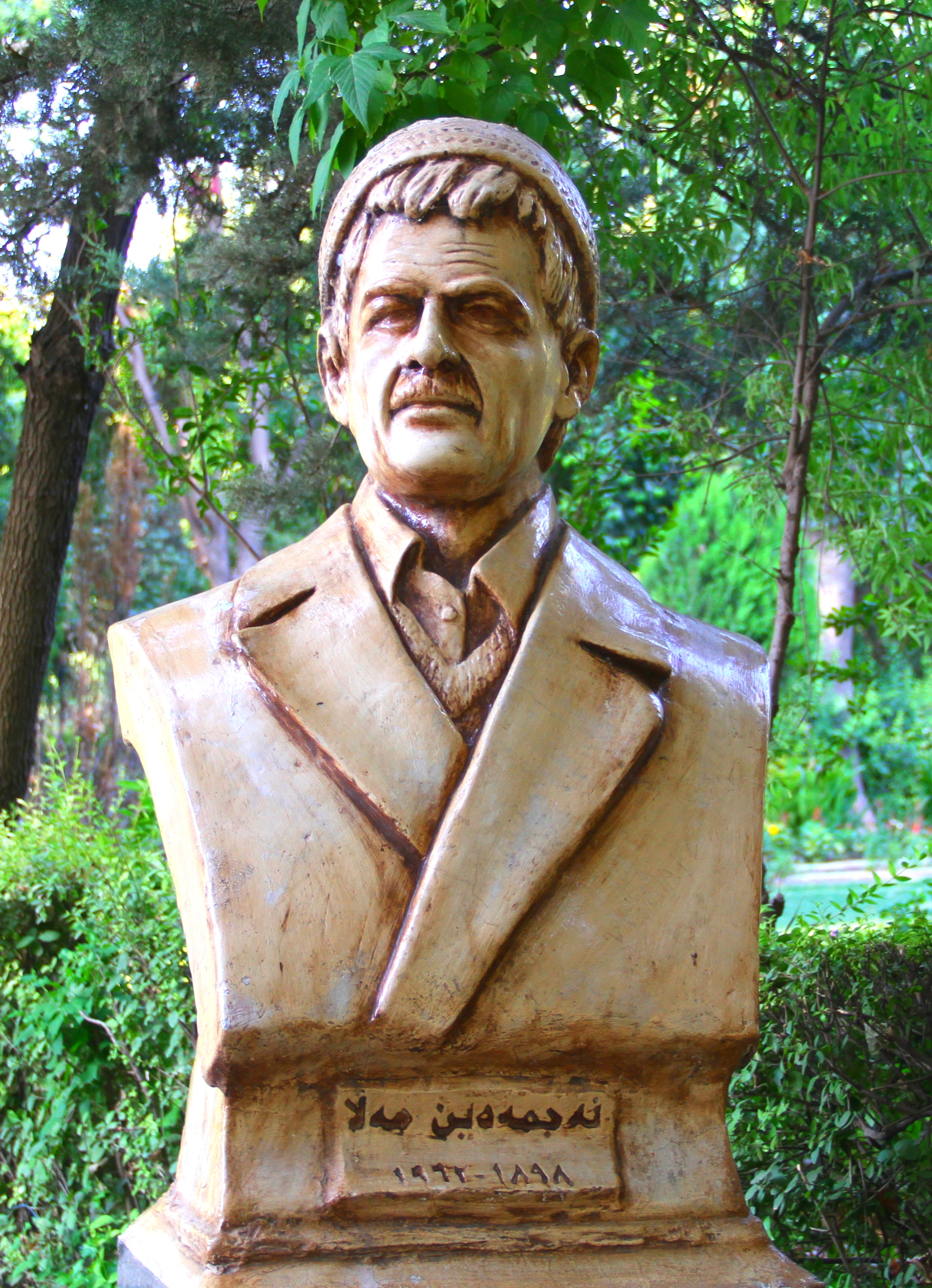 Statue of Kurdish writer Najmadeen Mala in Sulaymaniyah, Kurdistan, Iraq